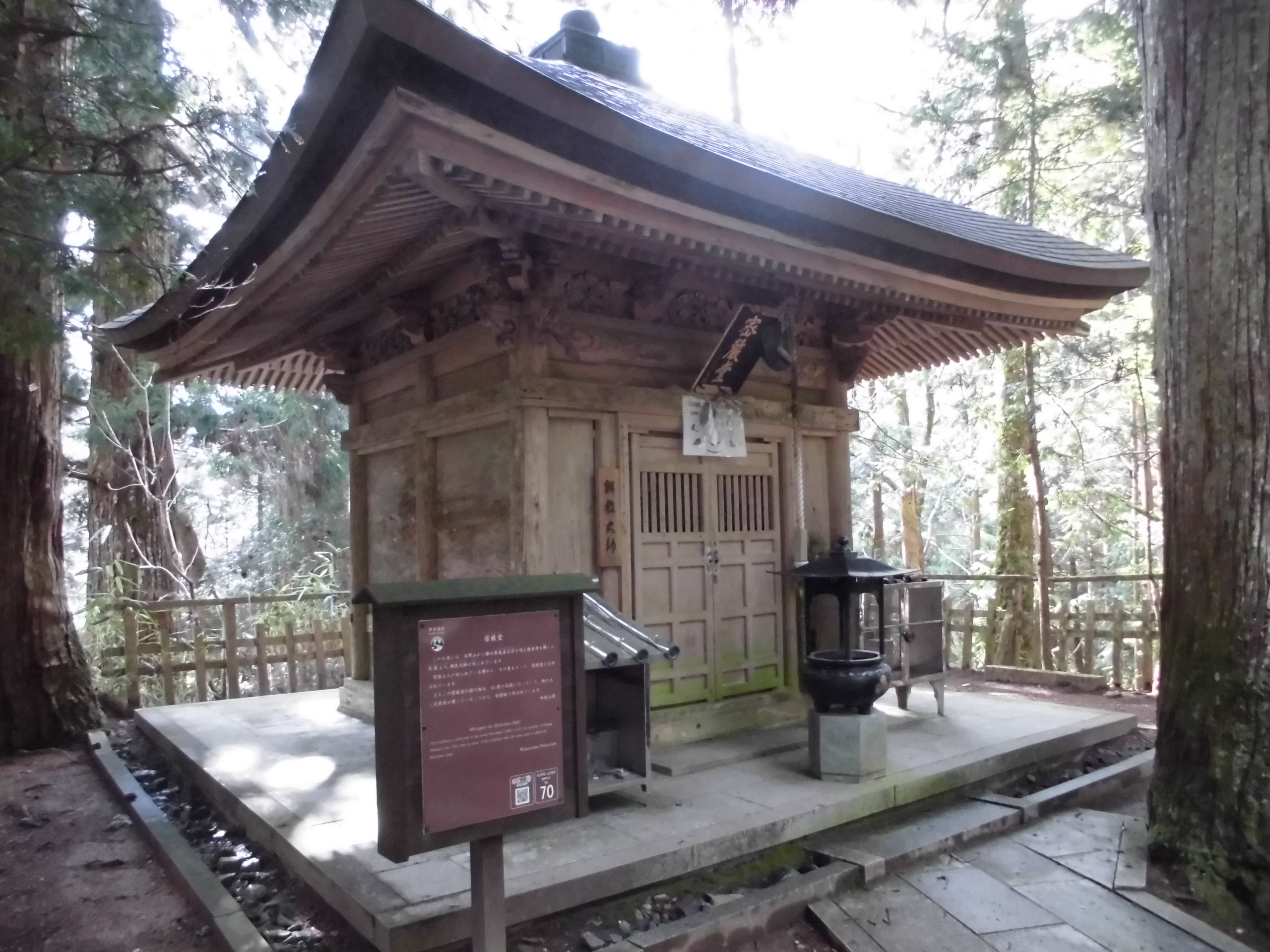 Mitugondō (Kakuban Hall) a hall on Koya-san (Japan) dedicated to the monk Kakuban (1095−1143), the founder of the Buddhist School of Shingi Shingon.